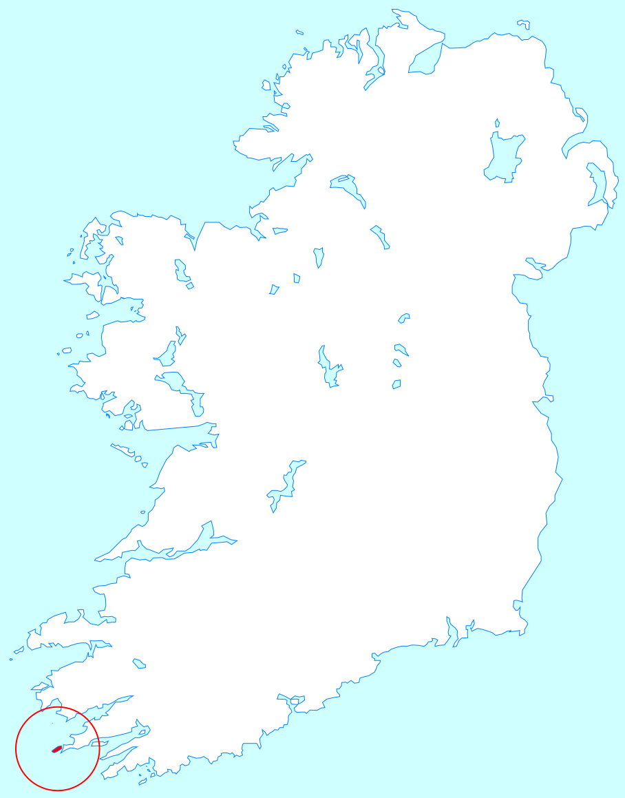 Location map of Dursey Island in Ireland